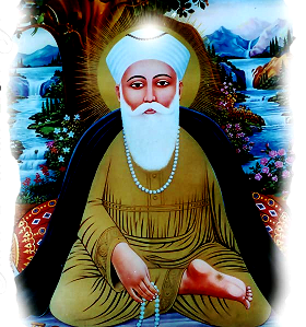 Guru Nanak Dev Ji